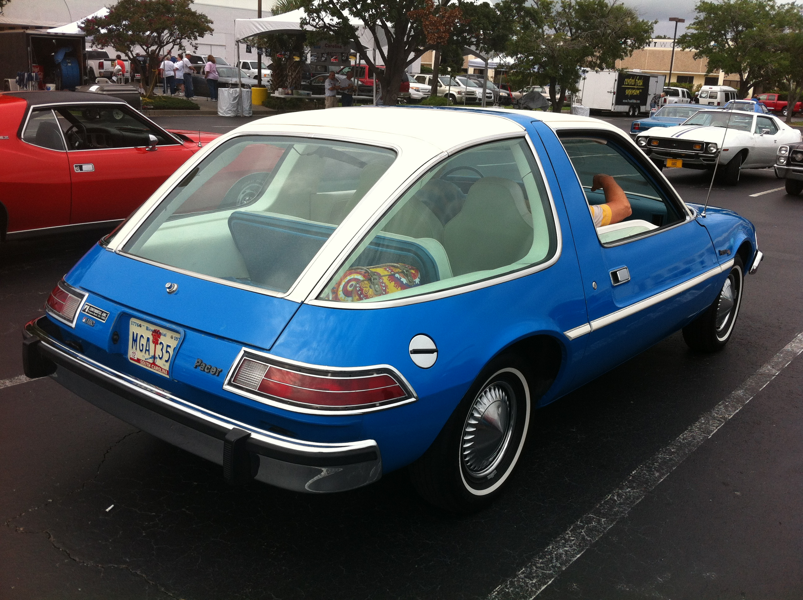 1976 AMC Pacer coupe, an innovative compact-sized car built by American Motors Corporation. This is an unmolested (factory original) D/L model finished in blue with the optional white vinyl roof, and the standard D/L interior in matching blue and white with the standard front bench seat. Photographed at the 2014 American Motors Owners (AMO) convention that was held in North Charleston, North Carolina, USA.